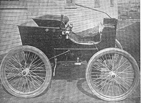 1899 Ernest & Ofeldt Steam Carriage